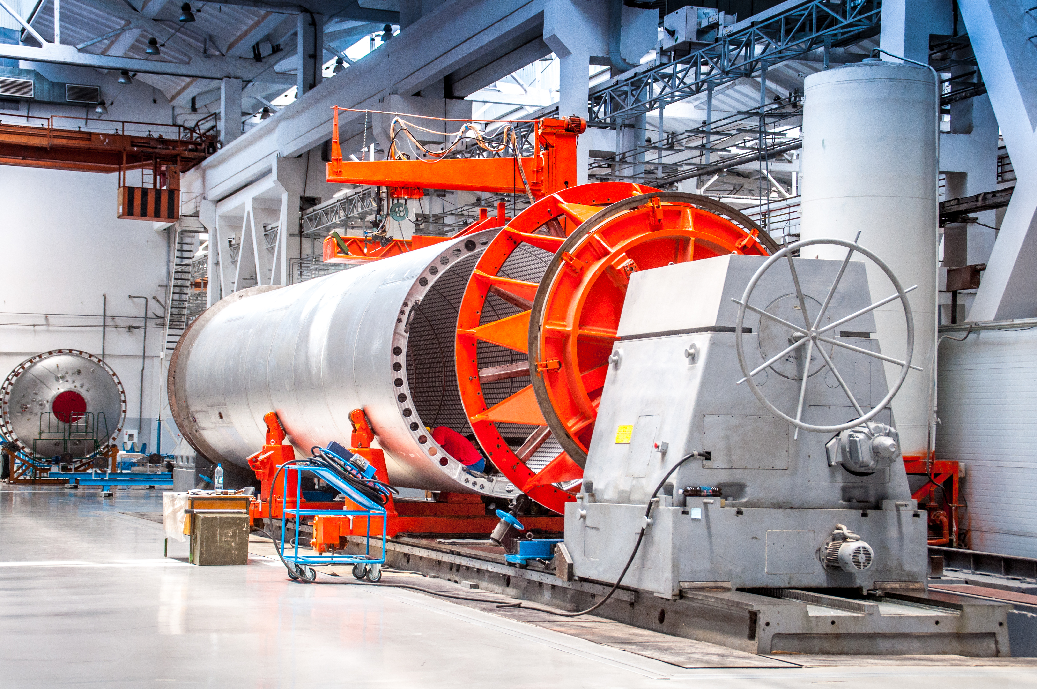 The launch of a full Assembly cycle "hangars" for "Flight"